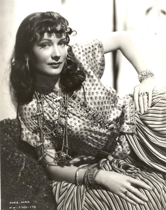 Sigrid Gurie as Ines in Algiers - promotional image